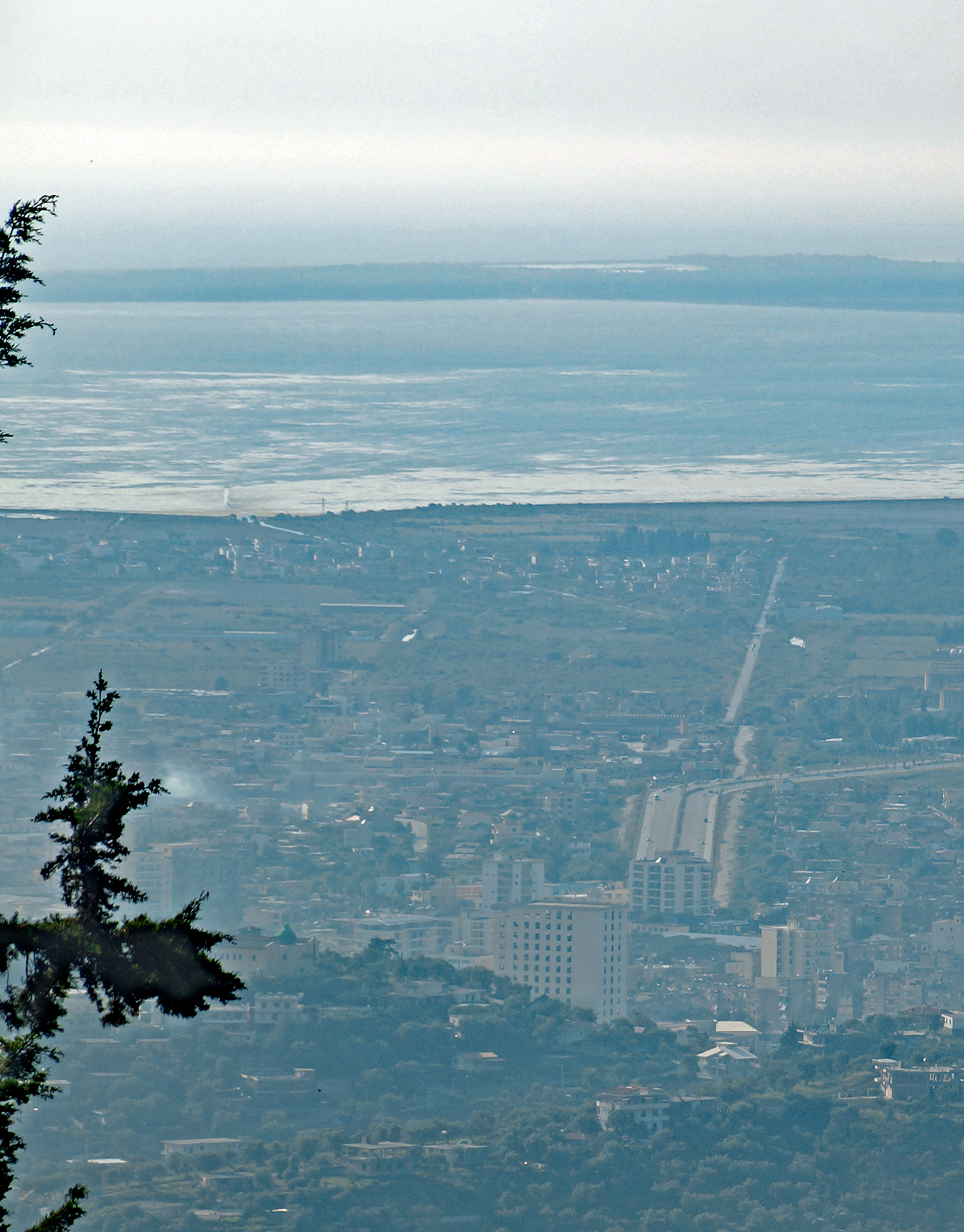 Looking in north-western direction from Kanina castle over the city of Vlora and the village of Narta to the Narta Lagoon at late afternoon